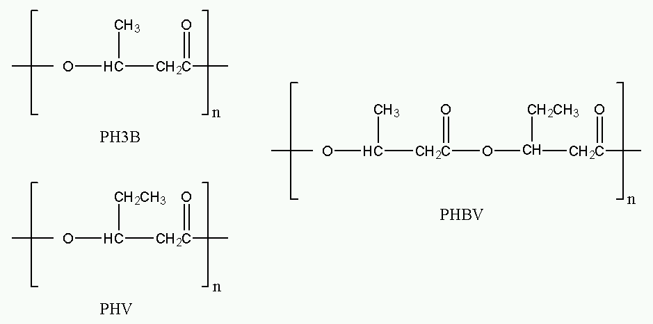 Chemical structure of polyhydroxyalkanoates PH3B, PHV and PHBV. Selfmade by User:Berserker79 with Chemdraw pro